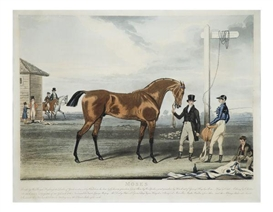 Moses, Derby winner of 1822. Painting by James Pollard 1792-1867. Artist dead for 145 years.